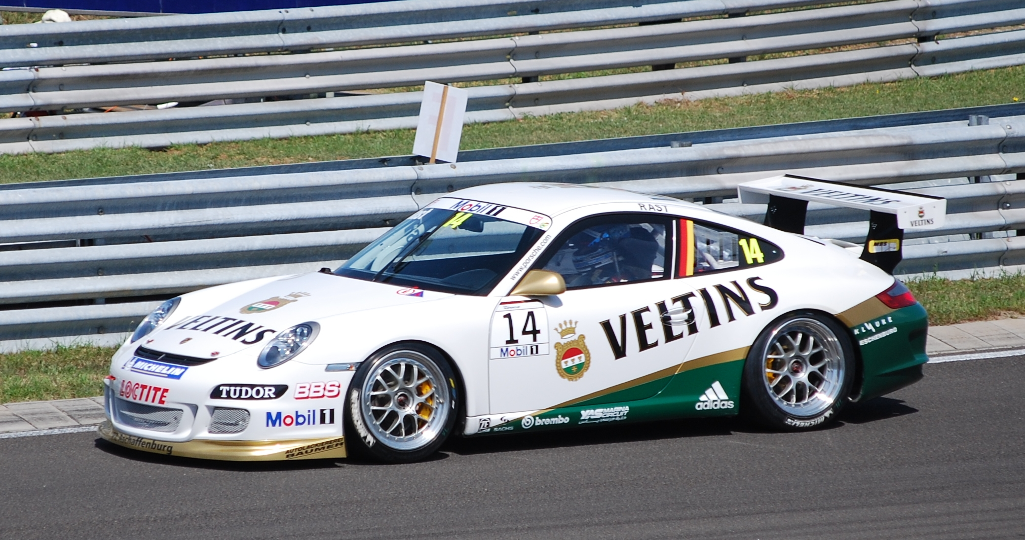 René Rast during Porsche Supercup at Hungaroring in 2009.